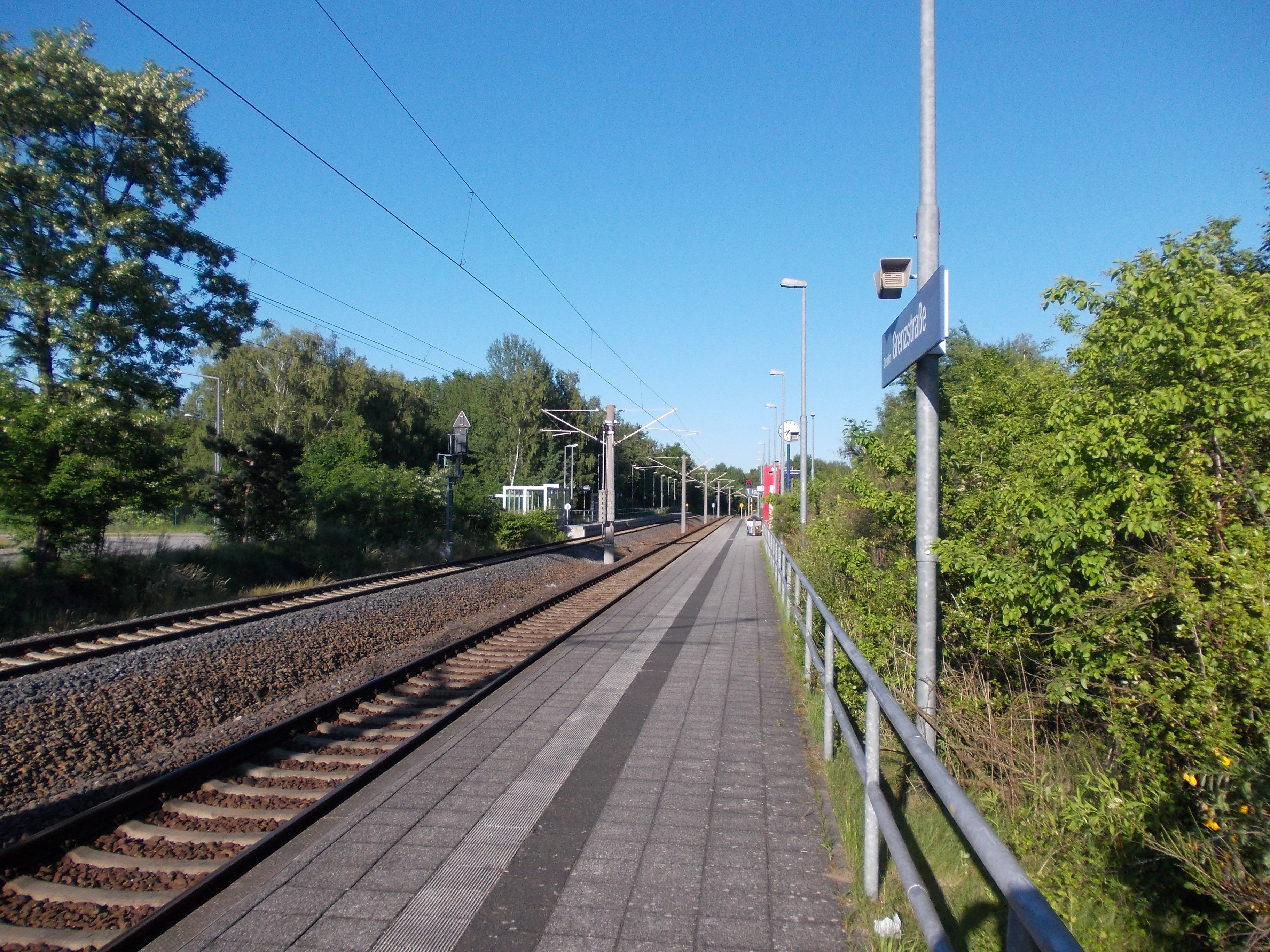 Dresden Grenzstraße railway station: View from platform 1 towards Dresden-Klotzsche